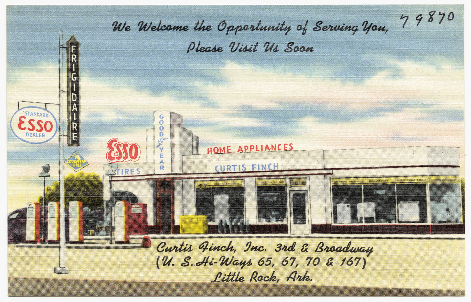 File name: 06_10_013155 Title: Curtis Finch, Inc. Date issued: 1930 - 1945 (approximate) Physical description: 1 print (postcard) : linen texture, color ; 3 1/2 x 5 1/2 in. Genre: Postcards Subject: Commercial facilities Notes: Title from item. Collection: The Tichnor Brothers Collection Location: Boston Public Library, Print Department Rights: No known restrictions